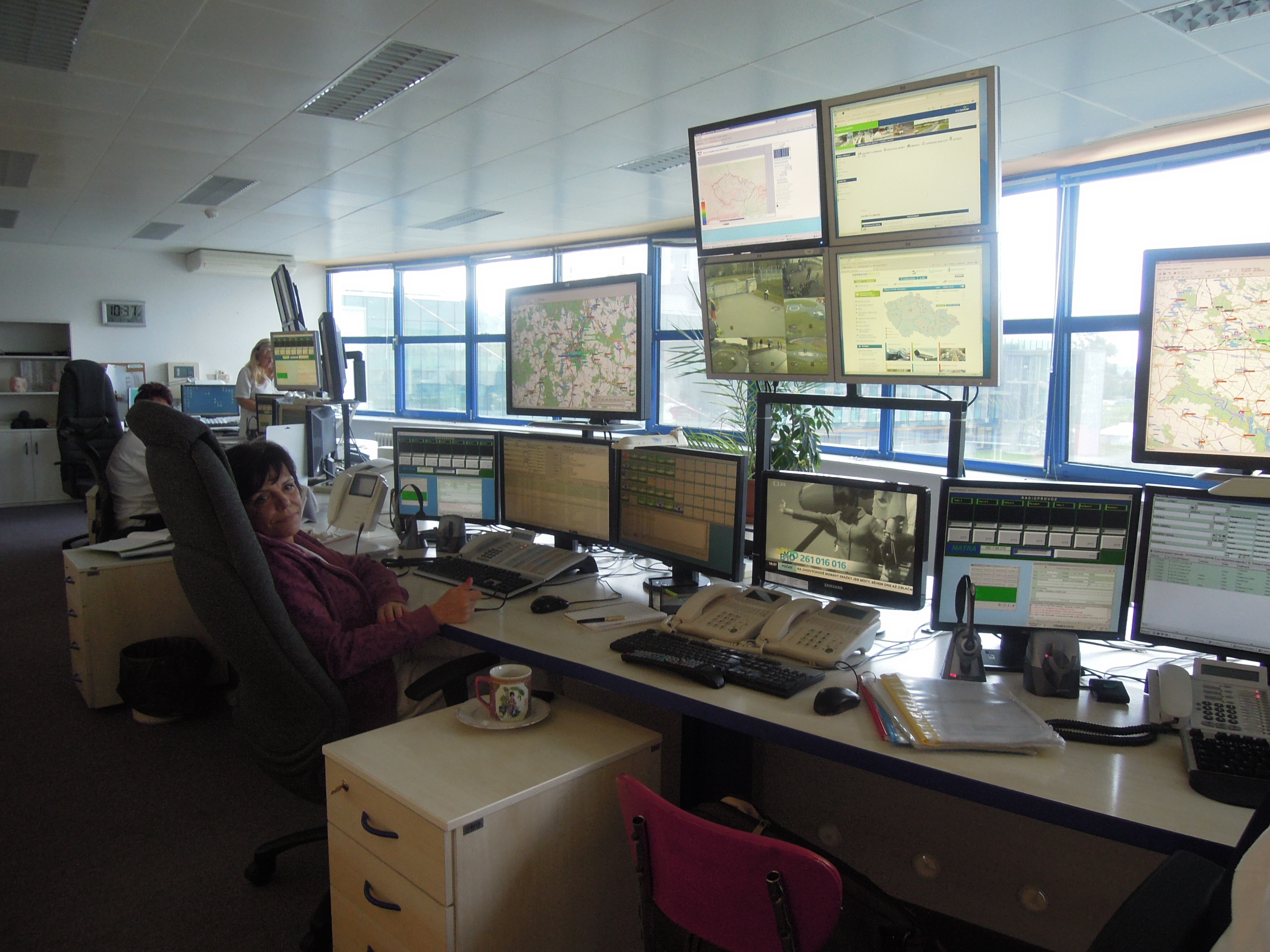 Center of emergency call 155 of ambulance of Zdravotnická záchranná služba Kraje Vysočina in Jihlava, Czech Republic